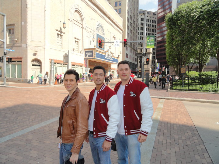 The Earth Angels, a Spanish Doo wop band in Pittsburgh, Pensilvania. The picture was taken during their participation in the Doo wop festival celebrated at the Hotel Hilton in May 2010 with the greatests of the American vocal group bands of this genre during the 20st century.